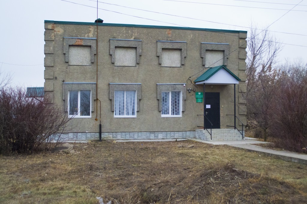 сбербанк